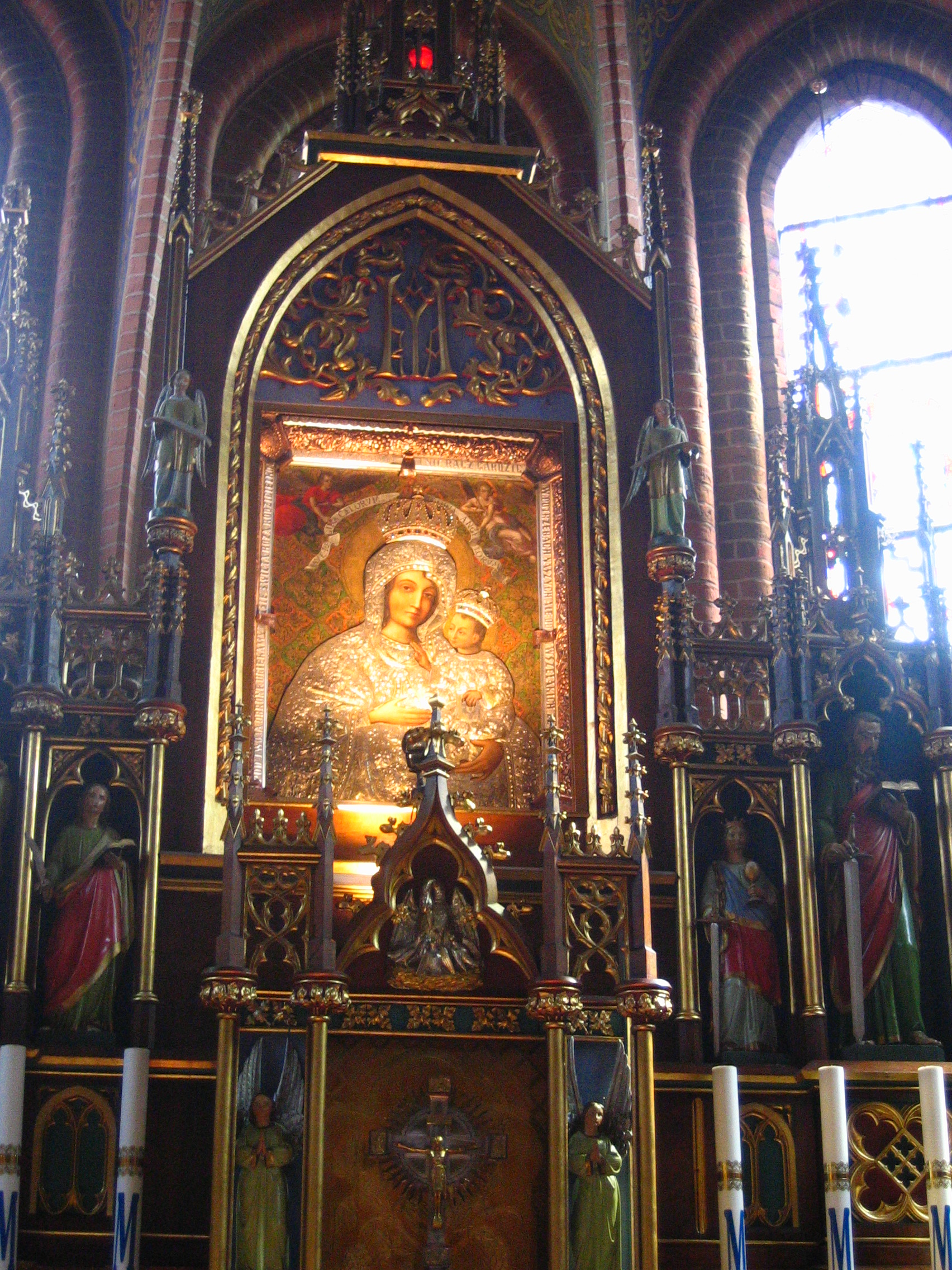 Church in Gietrzwałd, Poland